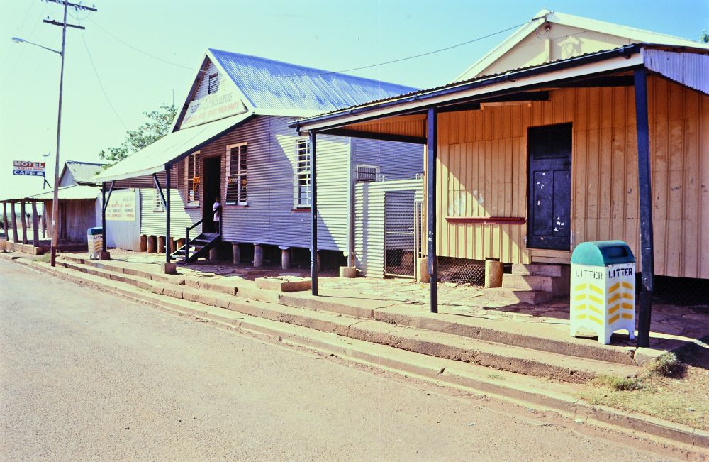 Freckleton's Stores, Camooweal (1992)